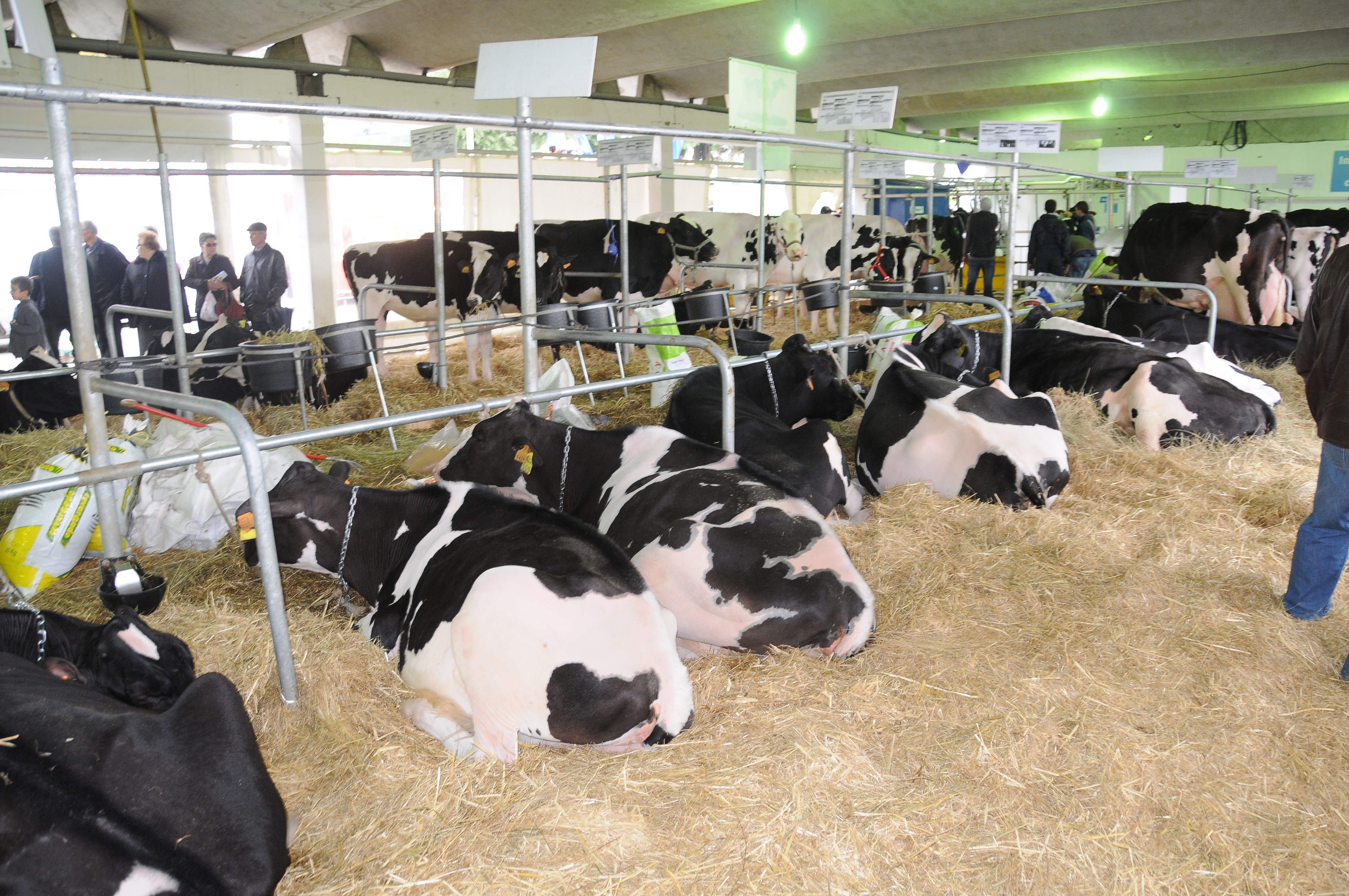 Cows in exibition in Agro 2014, in Parque de Exposições de Braga, Portugal.